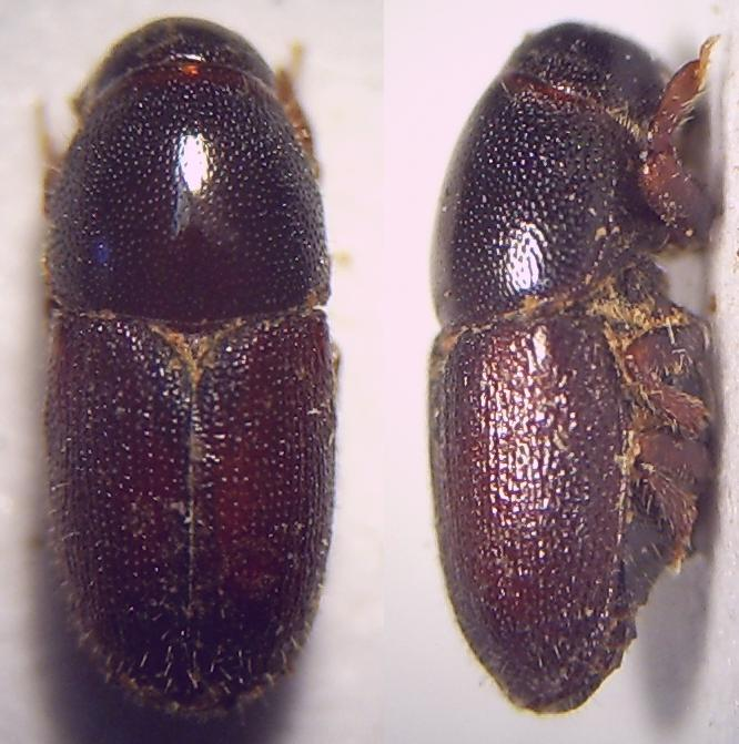 Scolytus_rugulosus_Imago.